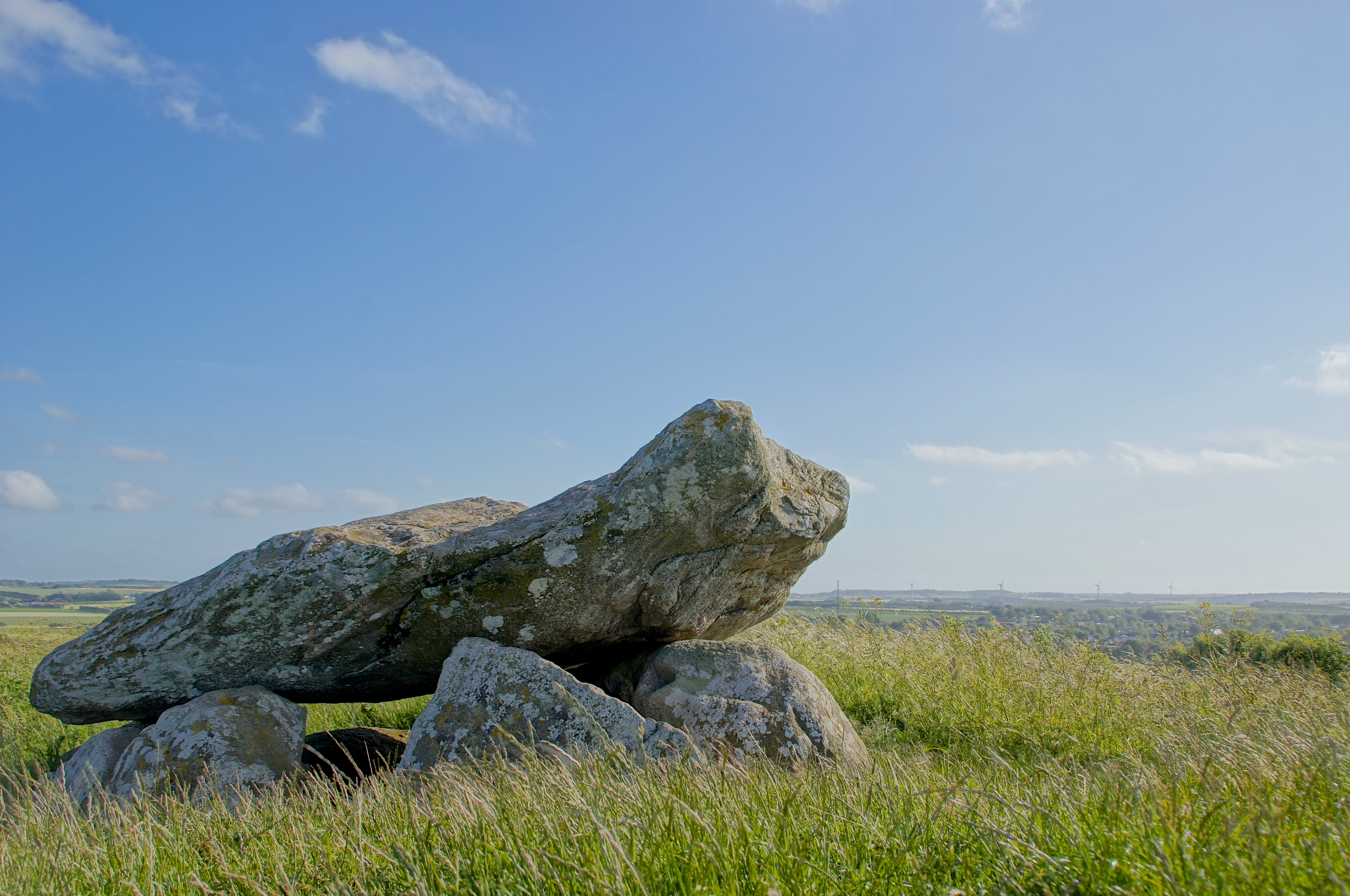 A Dolmen (chamber) at the Long barrow Troldkirken.